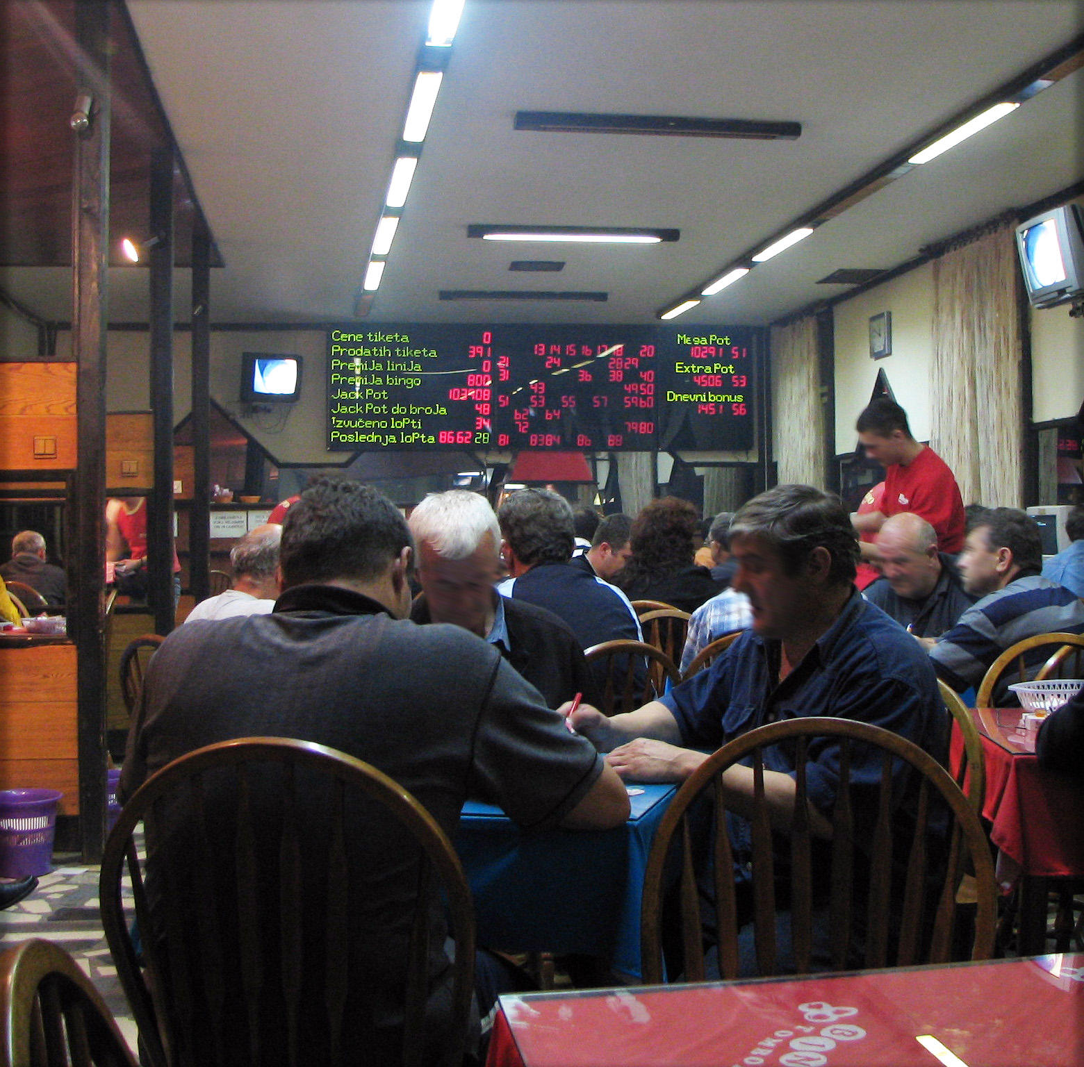 Tombola in Bajina Bašta (Serbia)